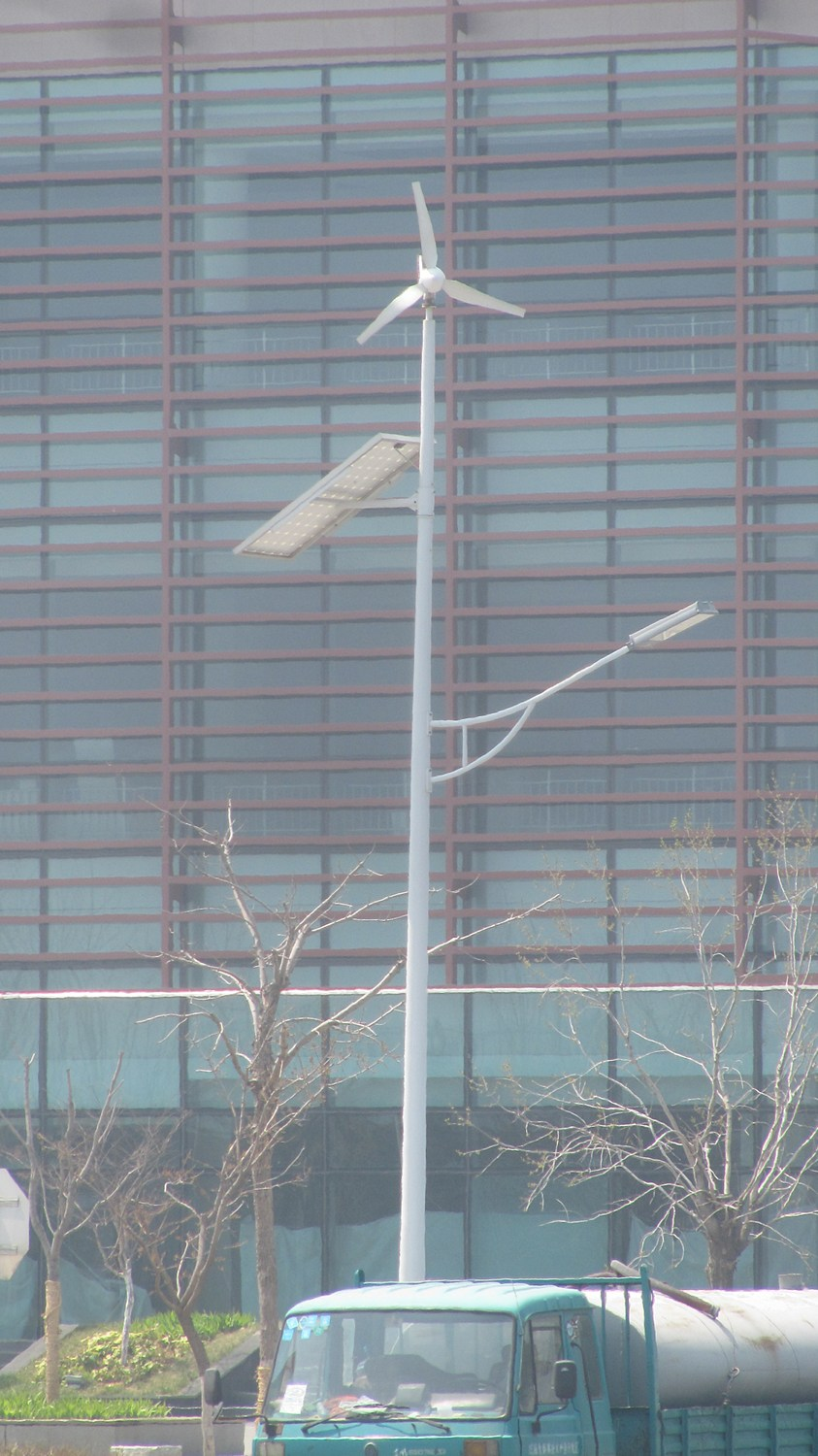 Wind and solar powered lights in China, overpower, can be injected to the city power grid.